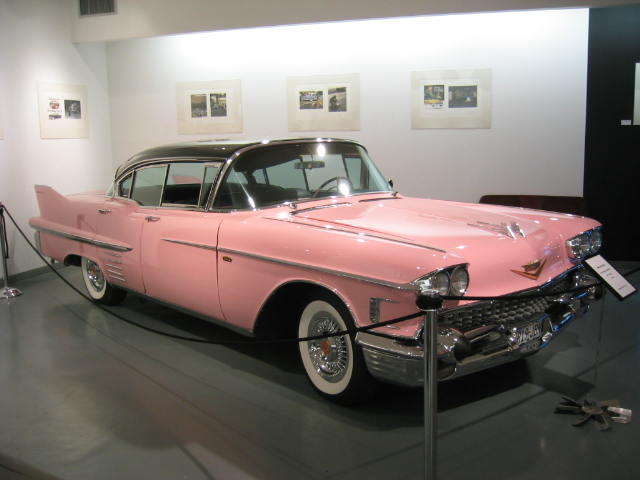 1958 Cadillac Sedan Deville (with replica Seville badges) - from the private collection of Ann Harithas